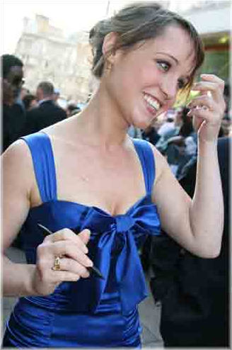 Scarlett Johnson attends the premiere of Adulthood